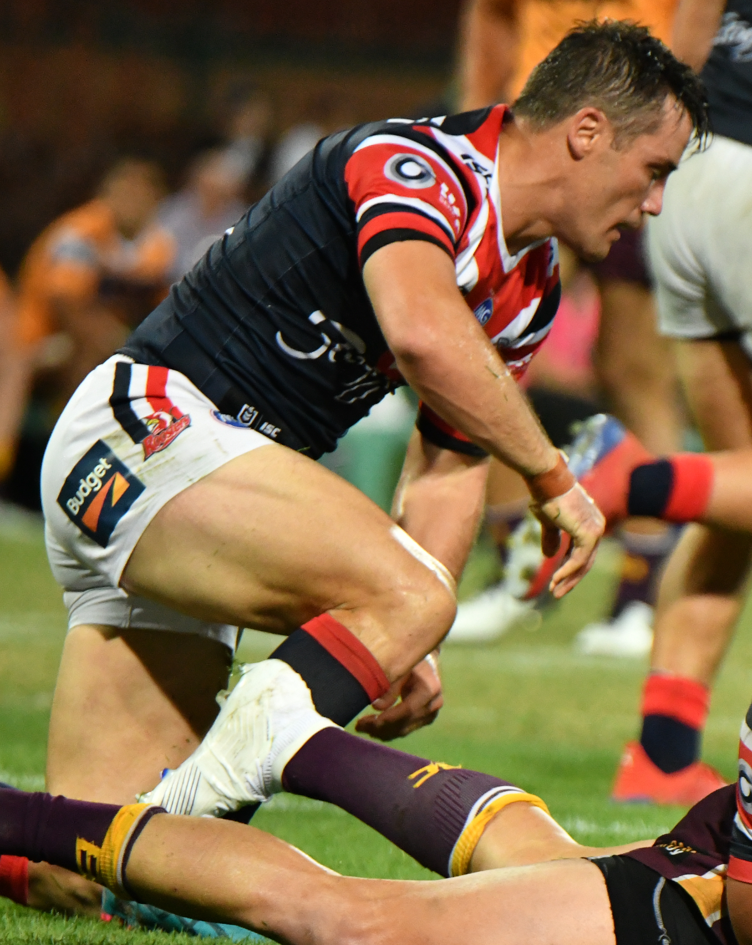 Poasa Faamausili